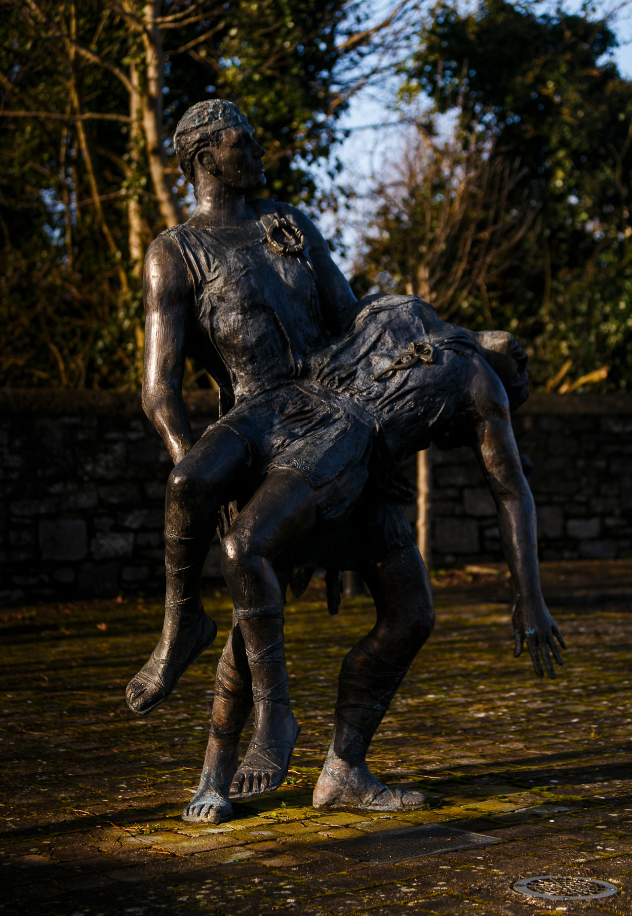 An Image of the Statue of Cuchulainn and Ferdia, Ardee